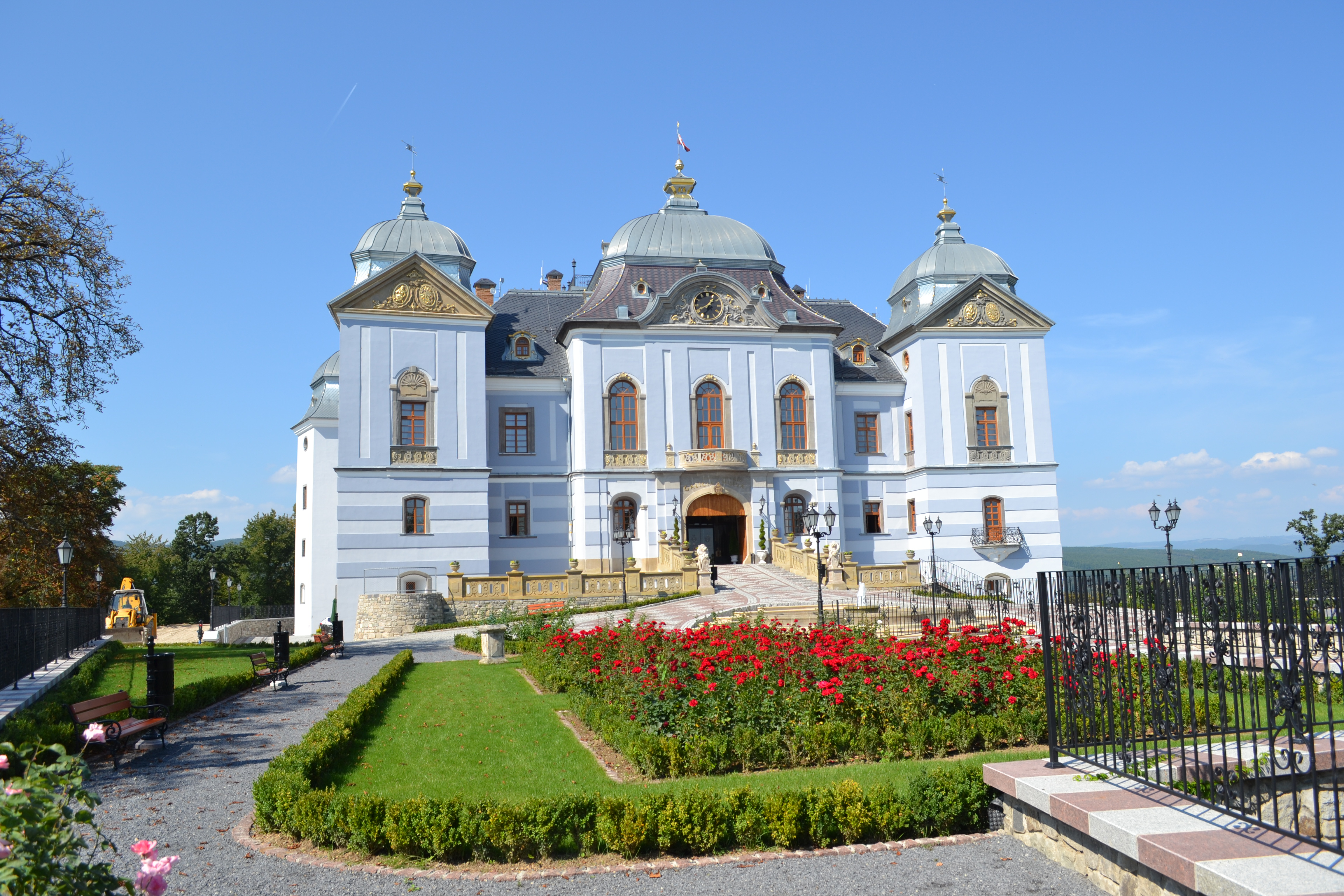 Manor in Halič